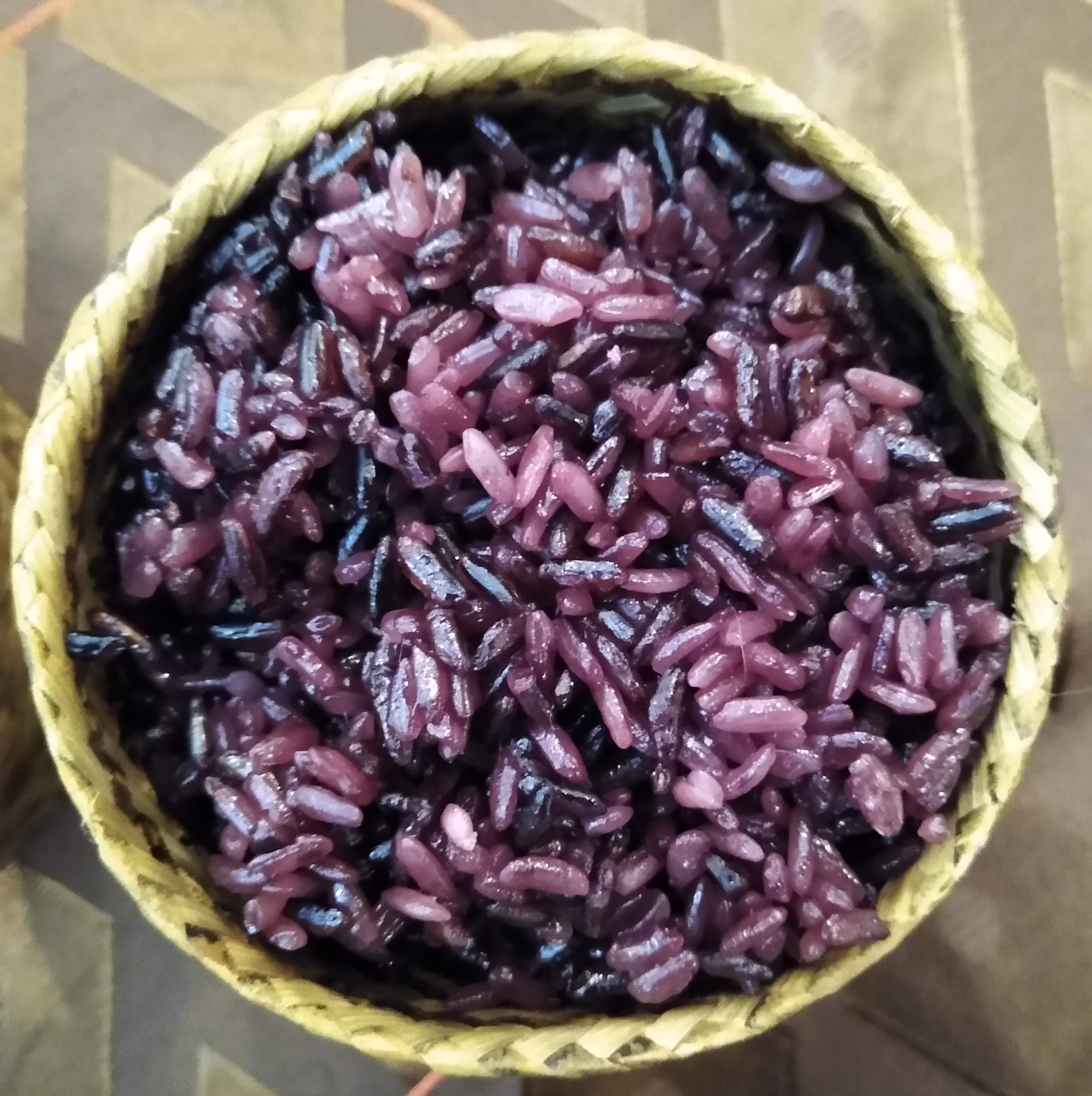 Sticky rice (ເຂົ້າໜຽວ) at Kualao Restaurant in Vientiane, Laos.